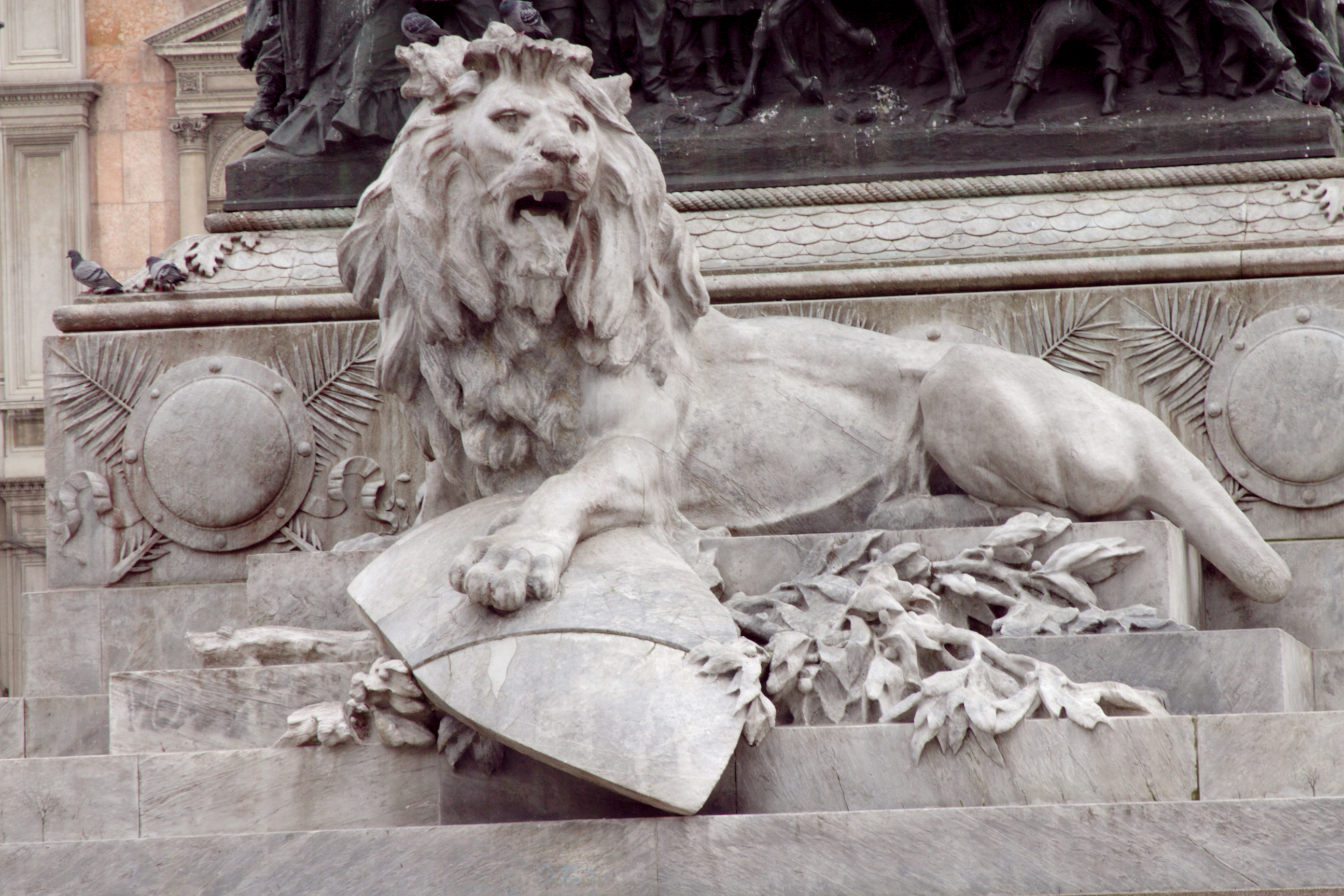 Monument to Vittorio Emanuele II - Piazza Duomo